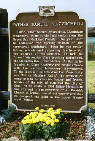 This is a highway sign describing the life and work of Father Mazzuchelli. This sign is about one mile west of Benton on State Highway 11